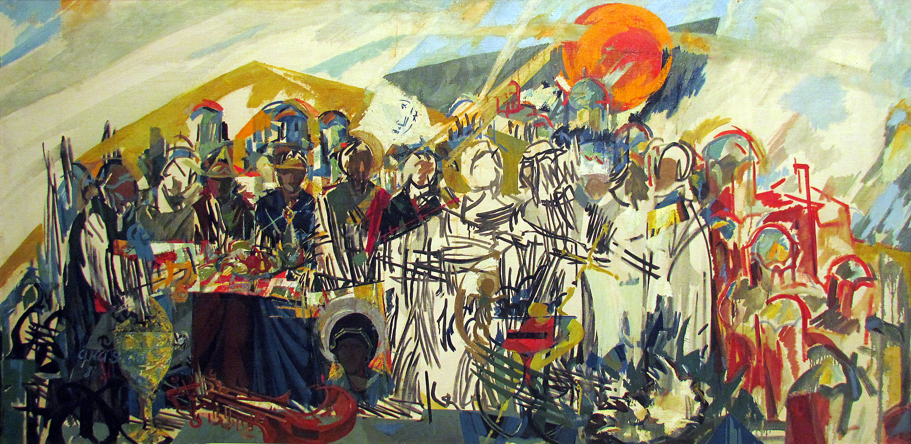 Milo Dimitrijevic: Akatist 1989